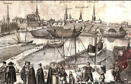 Detail from Hugo Allard's engraving of Copenhagen, Denmark, dating from the 1650s but based on a work from the 1620s.. The detail shows Bremerholm, the Royal Danish naval Shipyard.